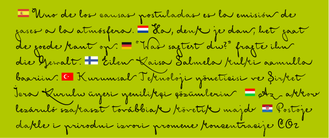 Full textprobe of script typeface FF Mister K Onstage